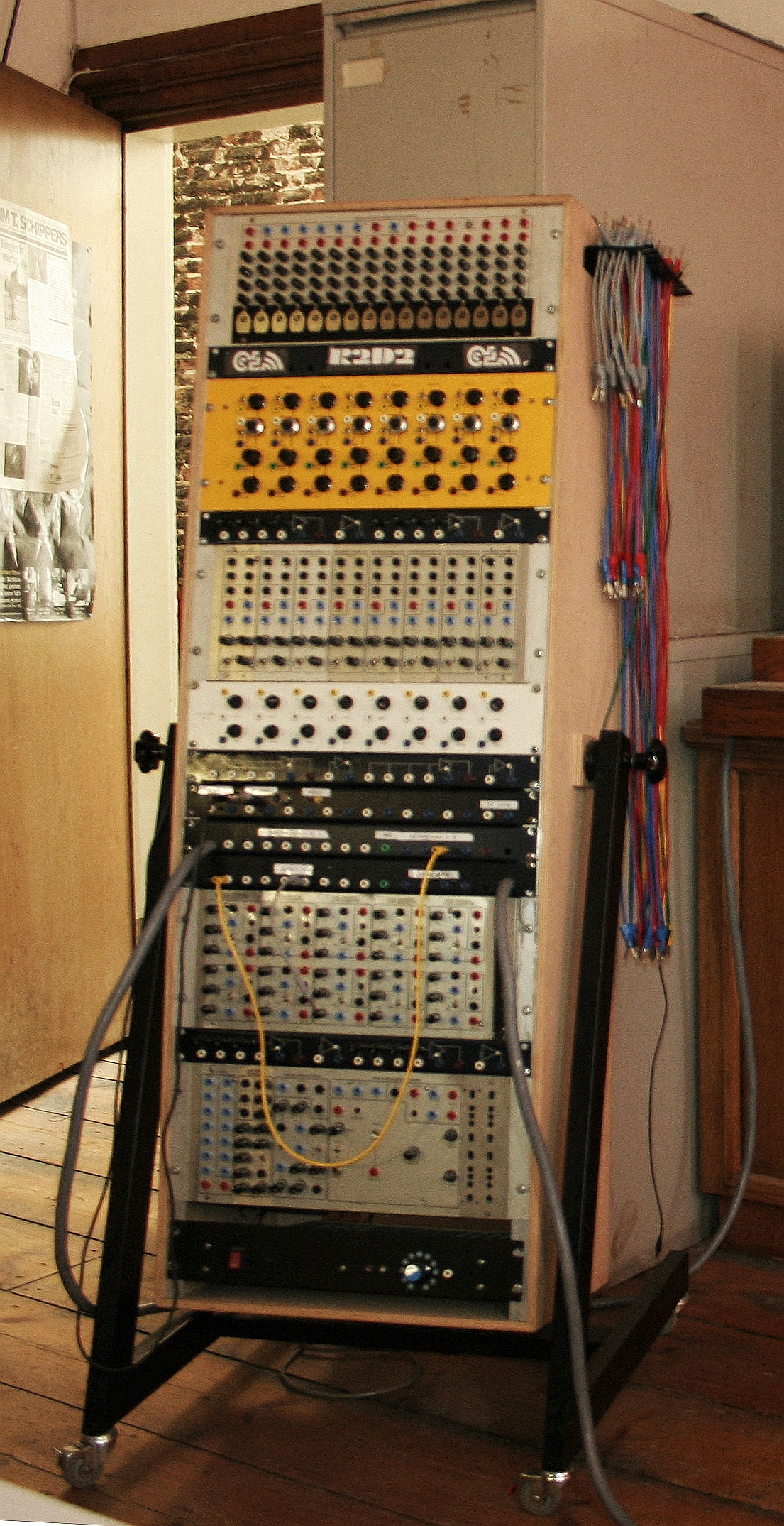 Serge modular synthesizer Worm Rotterdam, 24th June.